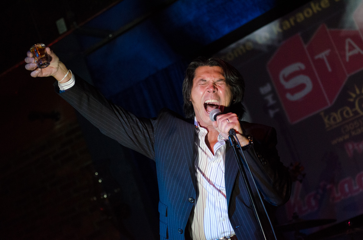 Lou Diamond Phillips performs at the FILLY BROWN After Party at The Stage